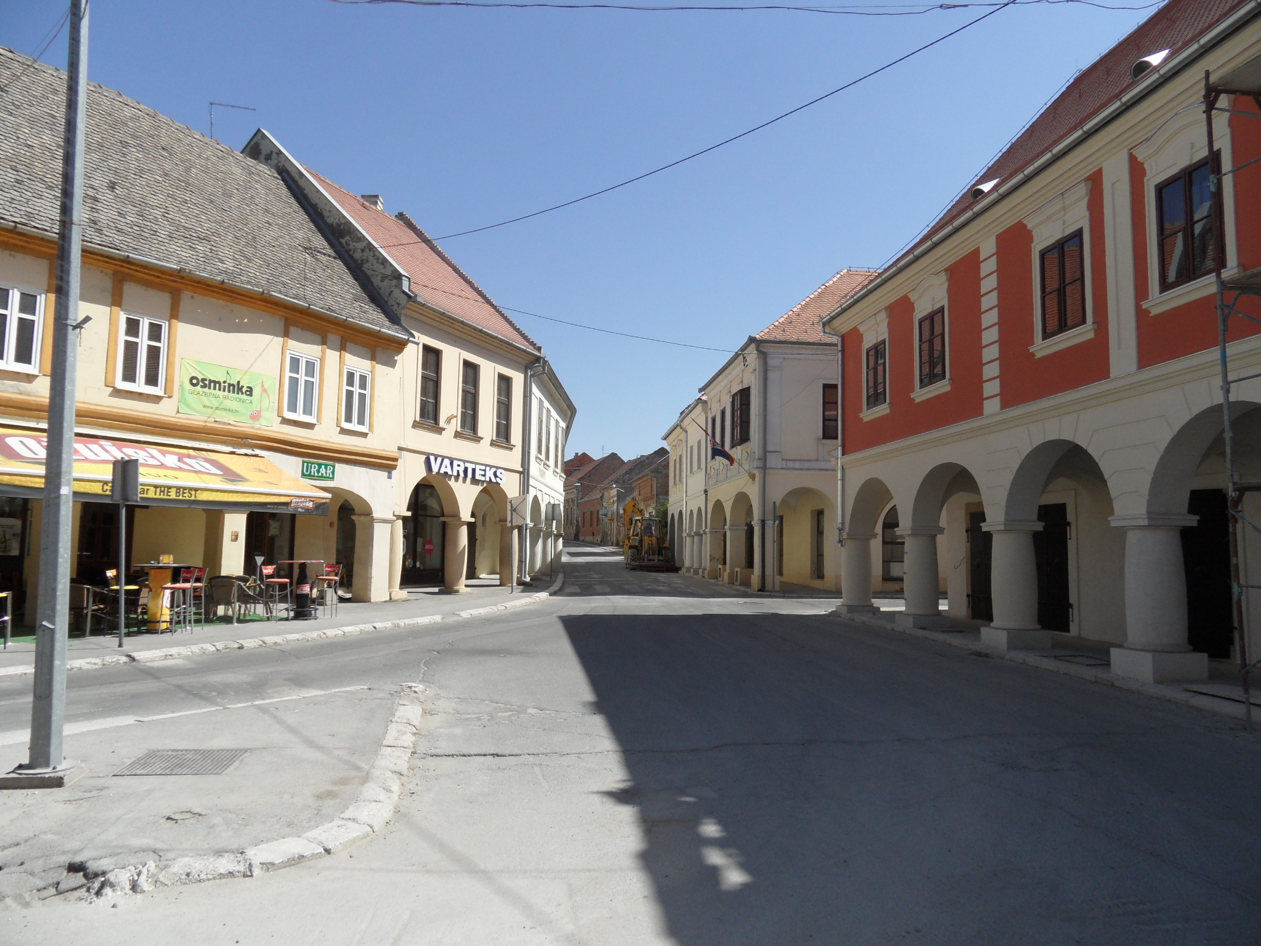 Vukovar Croatia, street scene (Franjo Tudjman street)